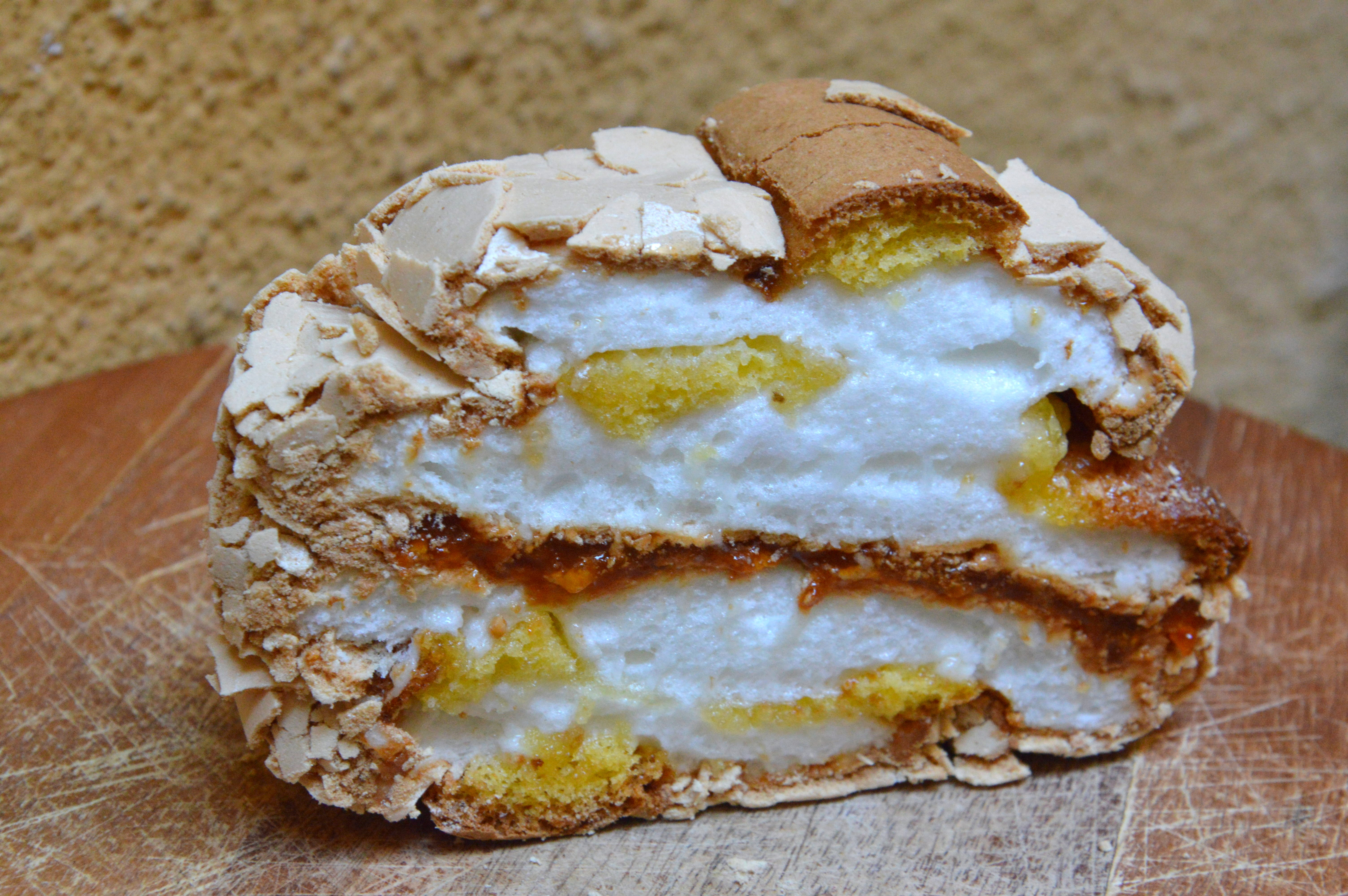 Kardinális szelet (Cardinal Slice) as prepared by Gina Cukrászda, Lehel tér, Budapest, Hungary. The cake gets its name from its colours (white and yellow) which are the colours of the Catholic Church.